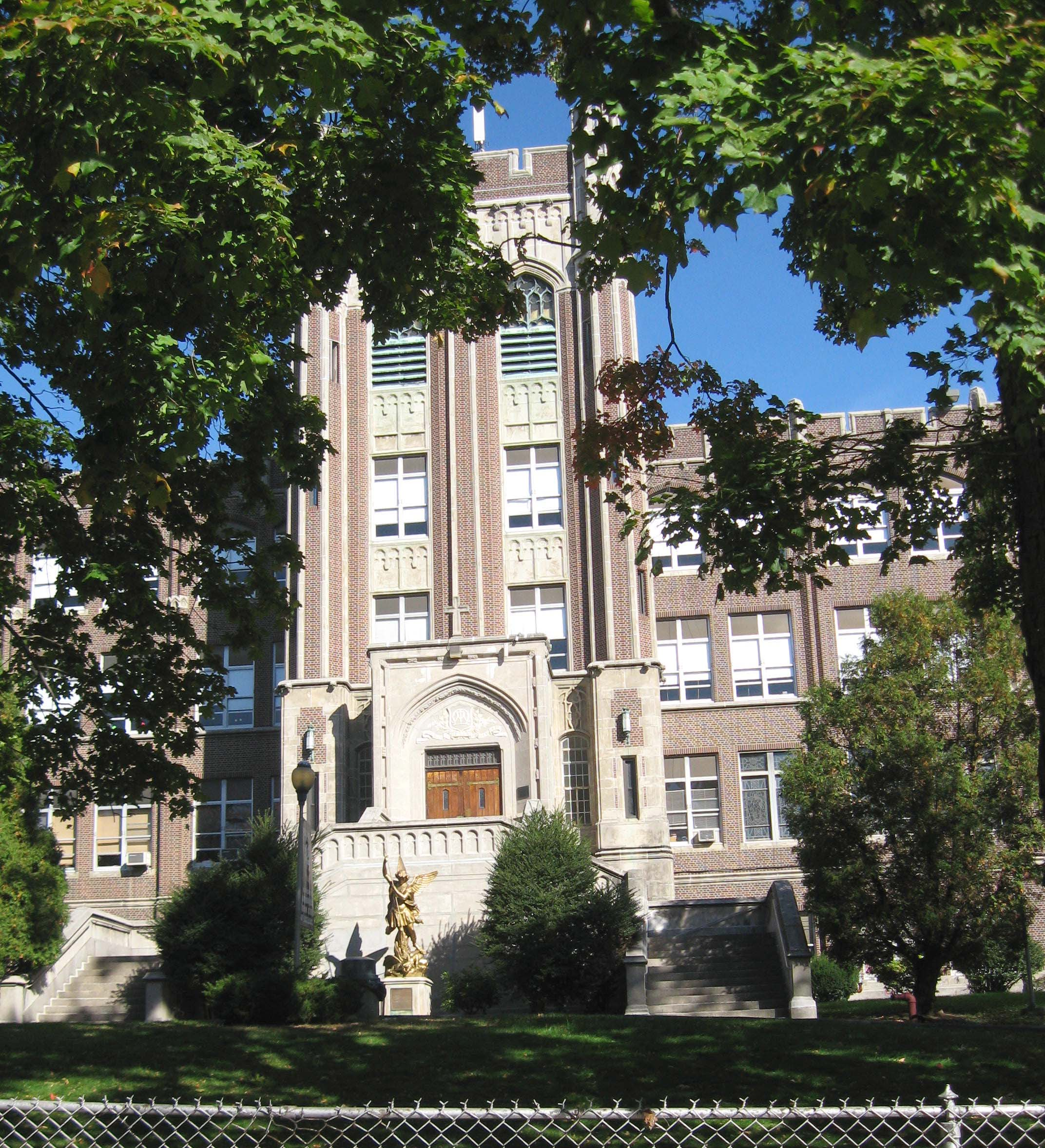 Looking northeast at central tower of Mount Saint Michael Academy on a sunny midday.